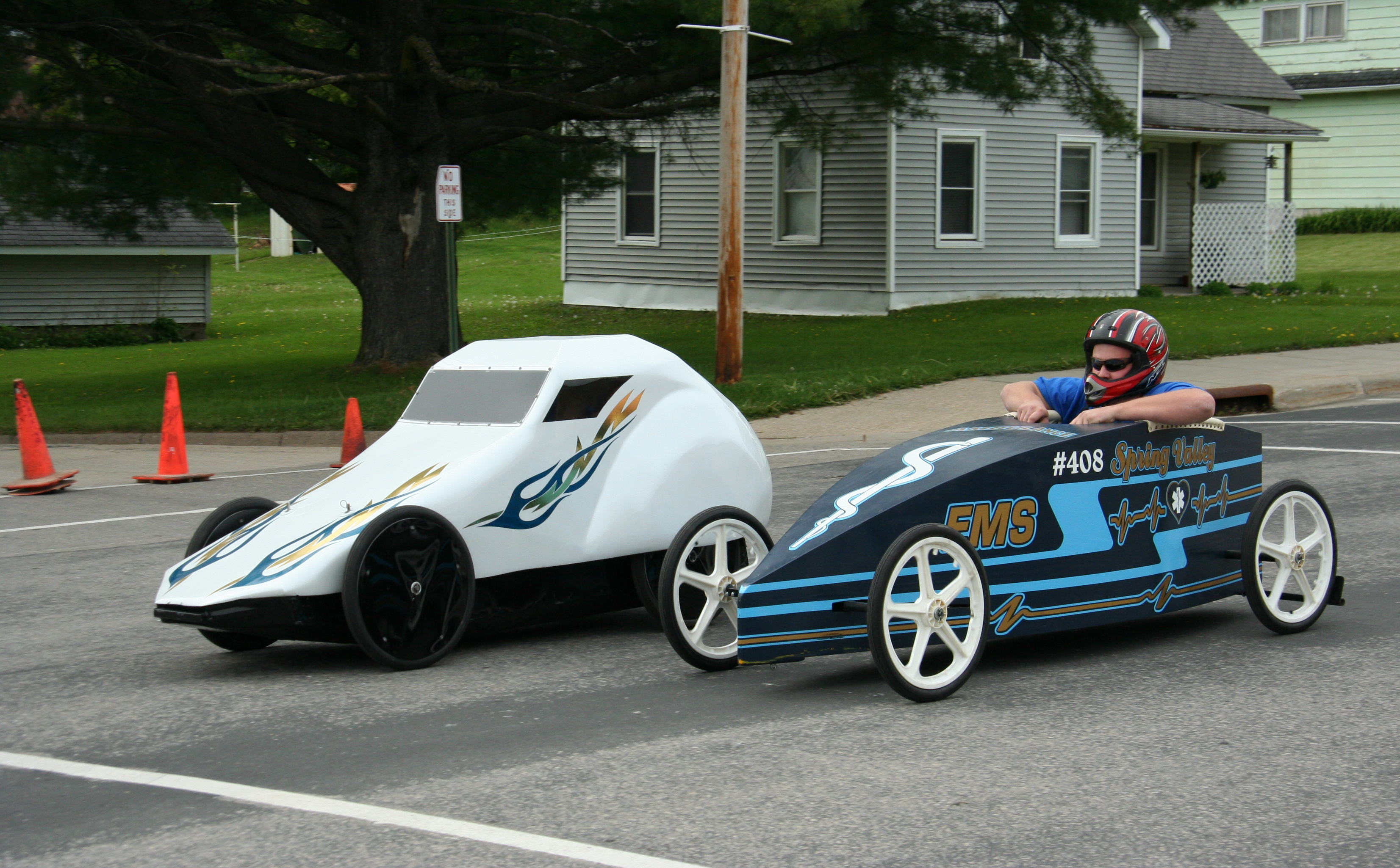 Soapbox cars at the finish line of a very close race held on a public street as part of a syttende mai festival in Spring Grove, Minnesota